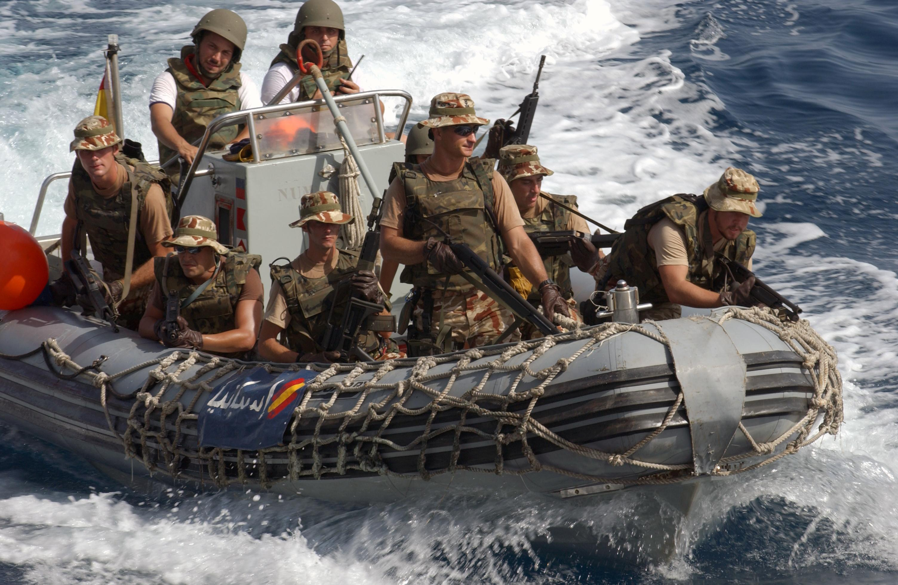 Gulf of Oman (May 05, 2004) - The Boarding Team assigned to the Spanish frigate SNS Numancia (F 83) man a Rigid Hull Inflatable Boat (RHIB) to board local fishing dhows to conduct searches of each vessel. The multinational Combined Task Force One Five Zero (CTF-150) was established to monitor, inspect, board, and stop suspect shipping to pursue the war on terrorism and includes operations currently taking place in the North Arabia Sea to support Operation Iraqi Freedom. Countries contributing to CTF-150 currently include Australia, Canada, France, Germany, Italy, Pakistan, New Zealand, Spain, United Kingdom and the United States.